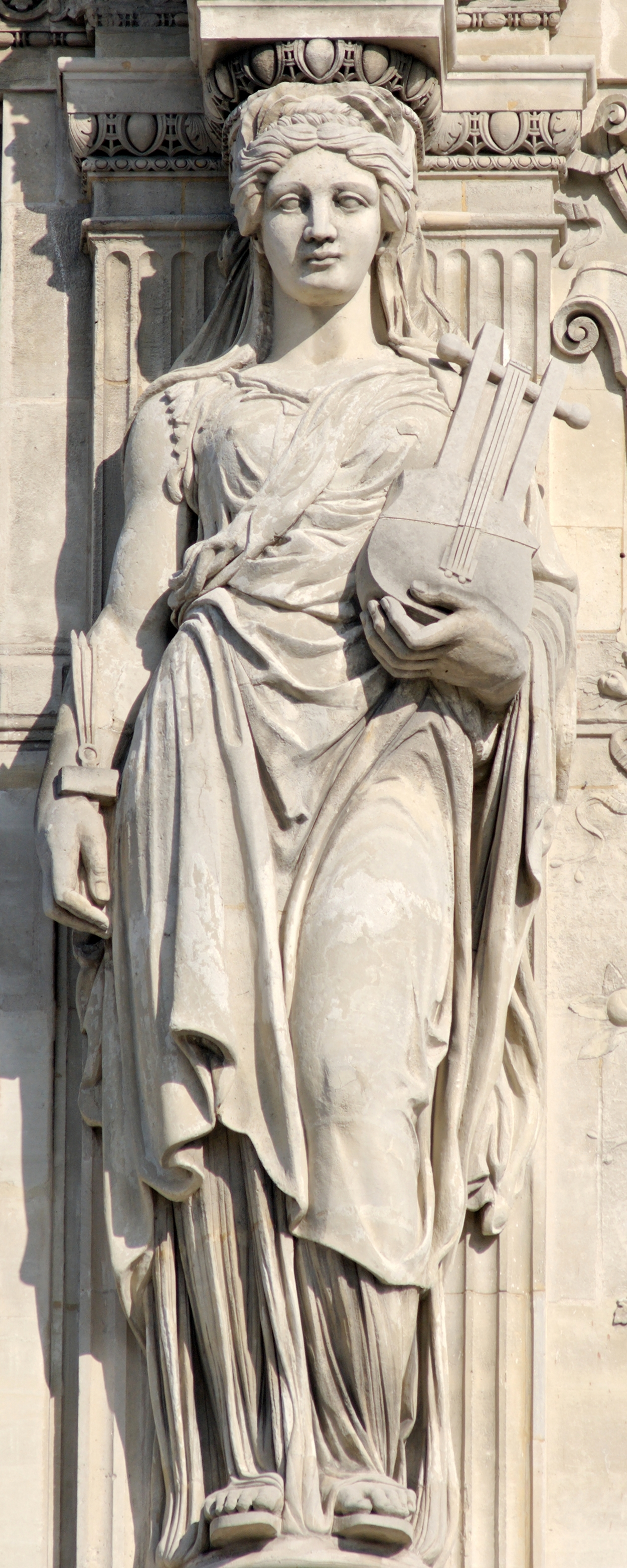 Caryatid by Eugène Guillaume. South side of the Pavillon Turgot, Louvre, Paris.